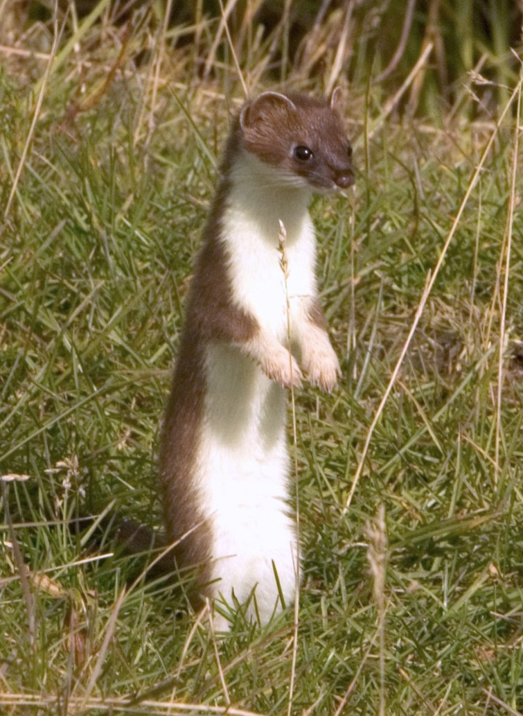 Short-tailed weasel (Mustela erminea), aka ermine or stoat, standing upright on rear legs